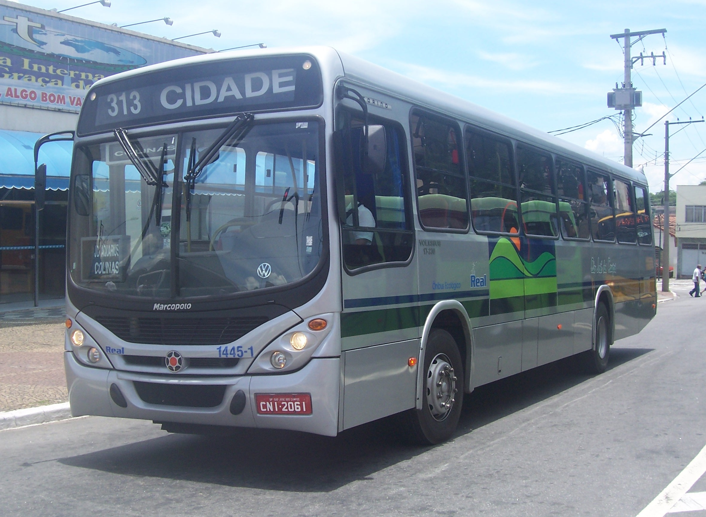 Marcopolo Torino GVI bus (#1445-1) with Volkswagen Volksbus 17-230 EOD chassis in Caxias do Sul, Rio Grande do Sul, Brazil. Viação Capital do Vale.